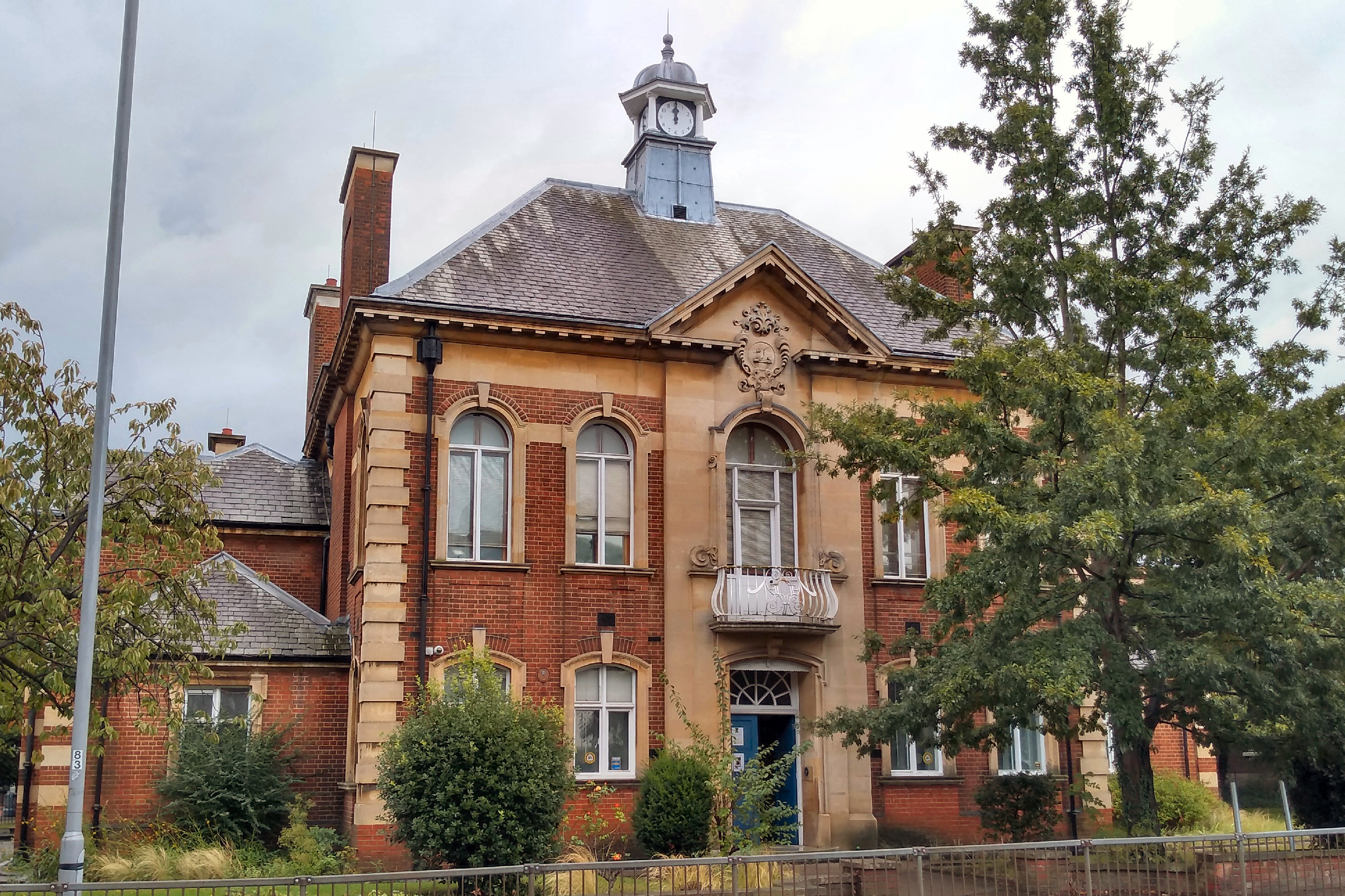 Surbiton, Sessions House (Former Council Offices). Grade:II, List Entry Number:1358440 (1898)